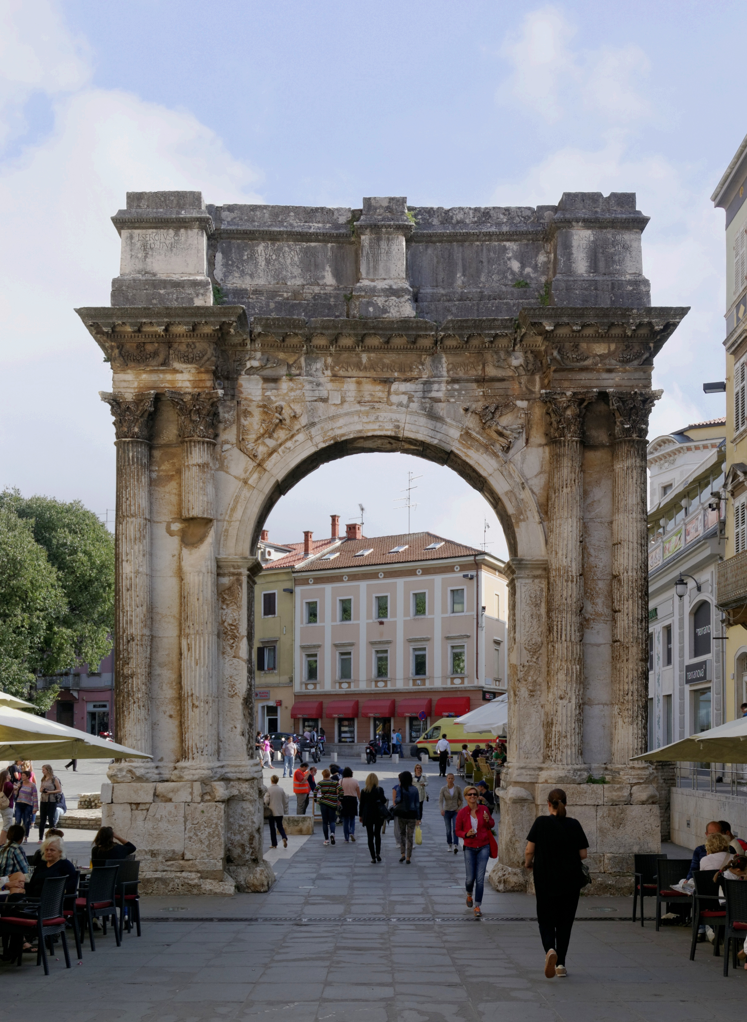 Croatia, Pula, Arch of the Sergii from west